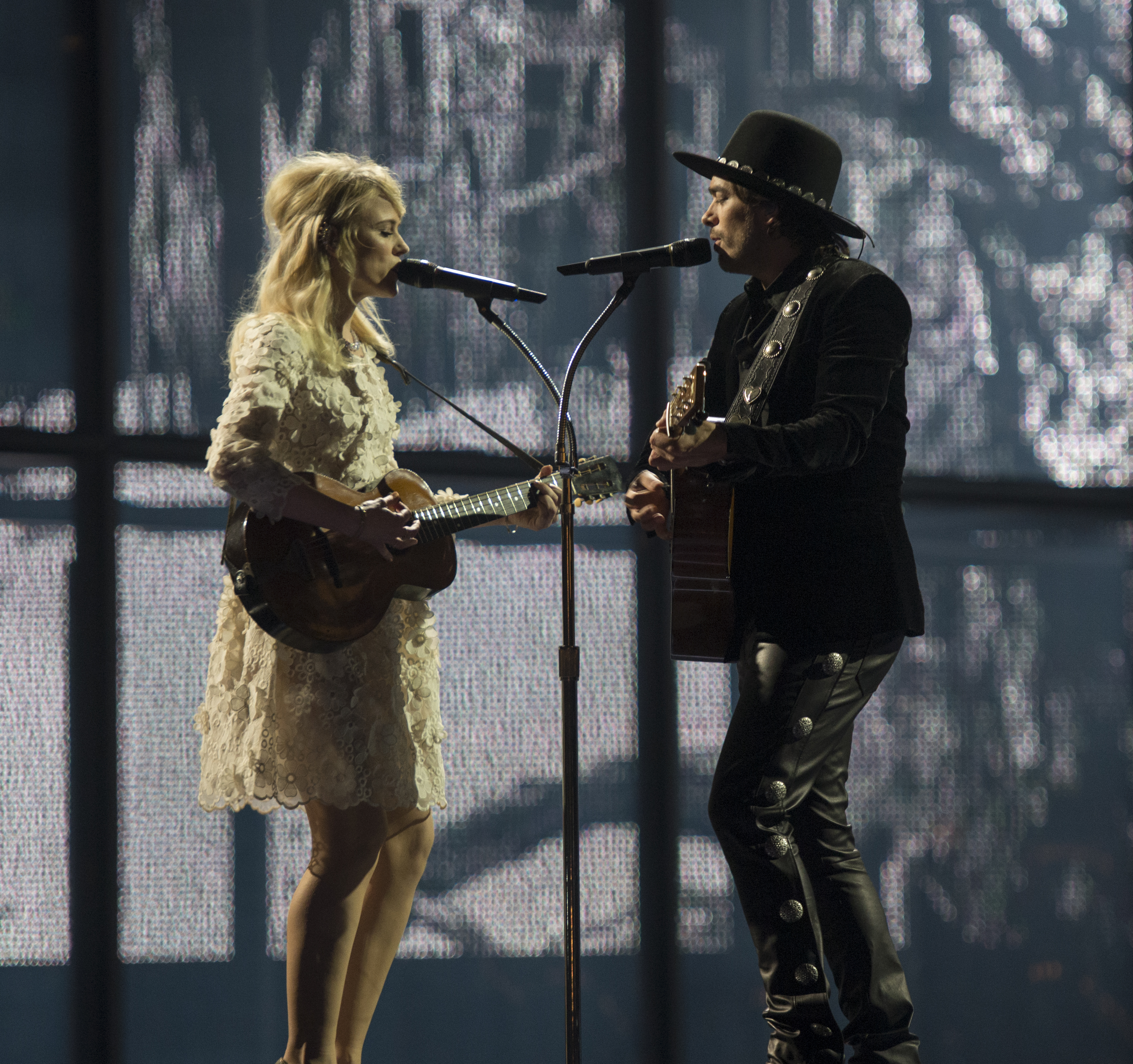 Q15229258 representing Q55 with the song "Q15891515" during the first dress rehearsal of the first semi final of the Q5354210 Q1748. (Help translate this text)